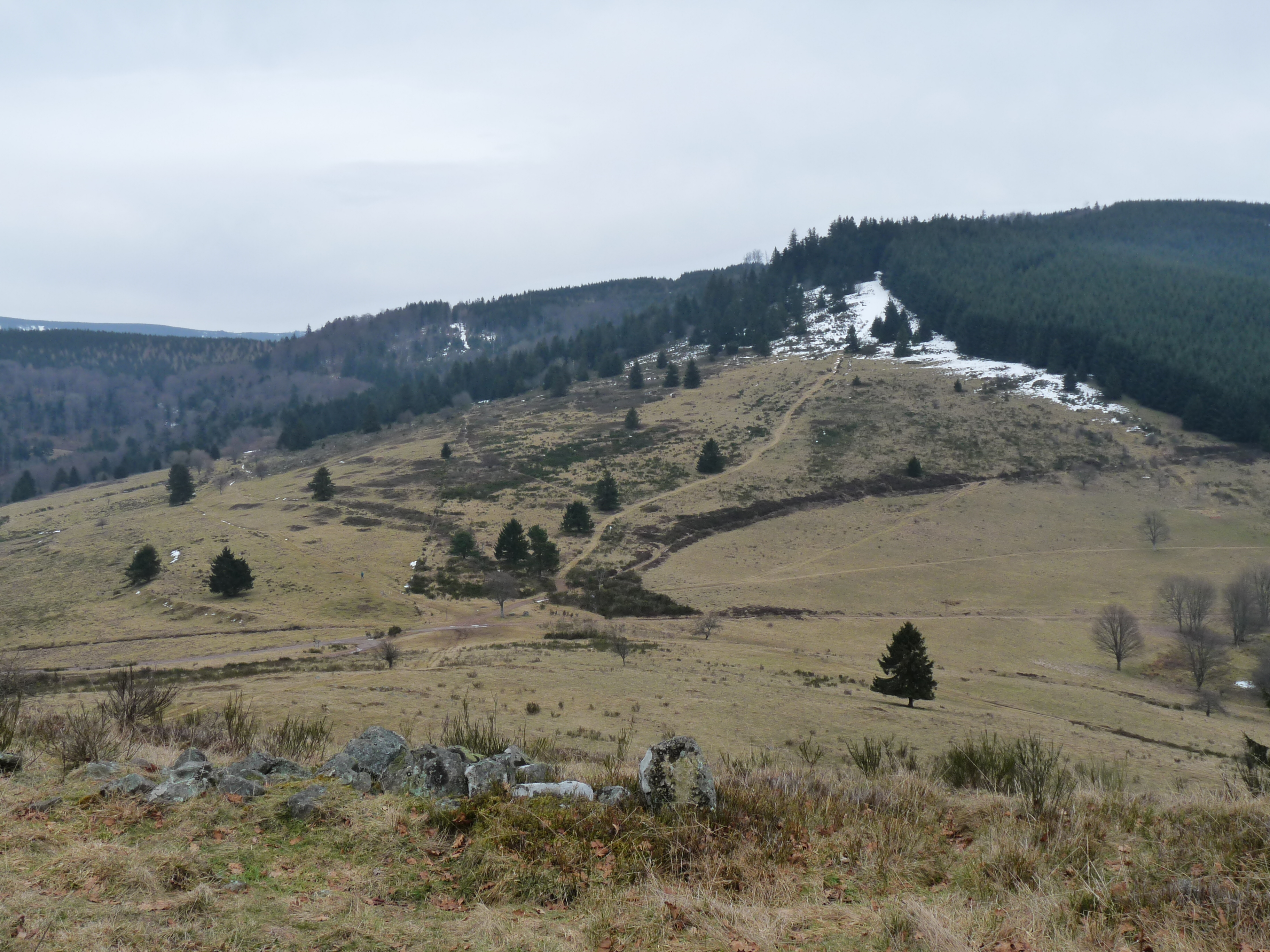 Mountain pass of la Perheux (Bas-Rhin)